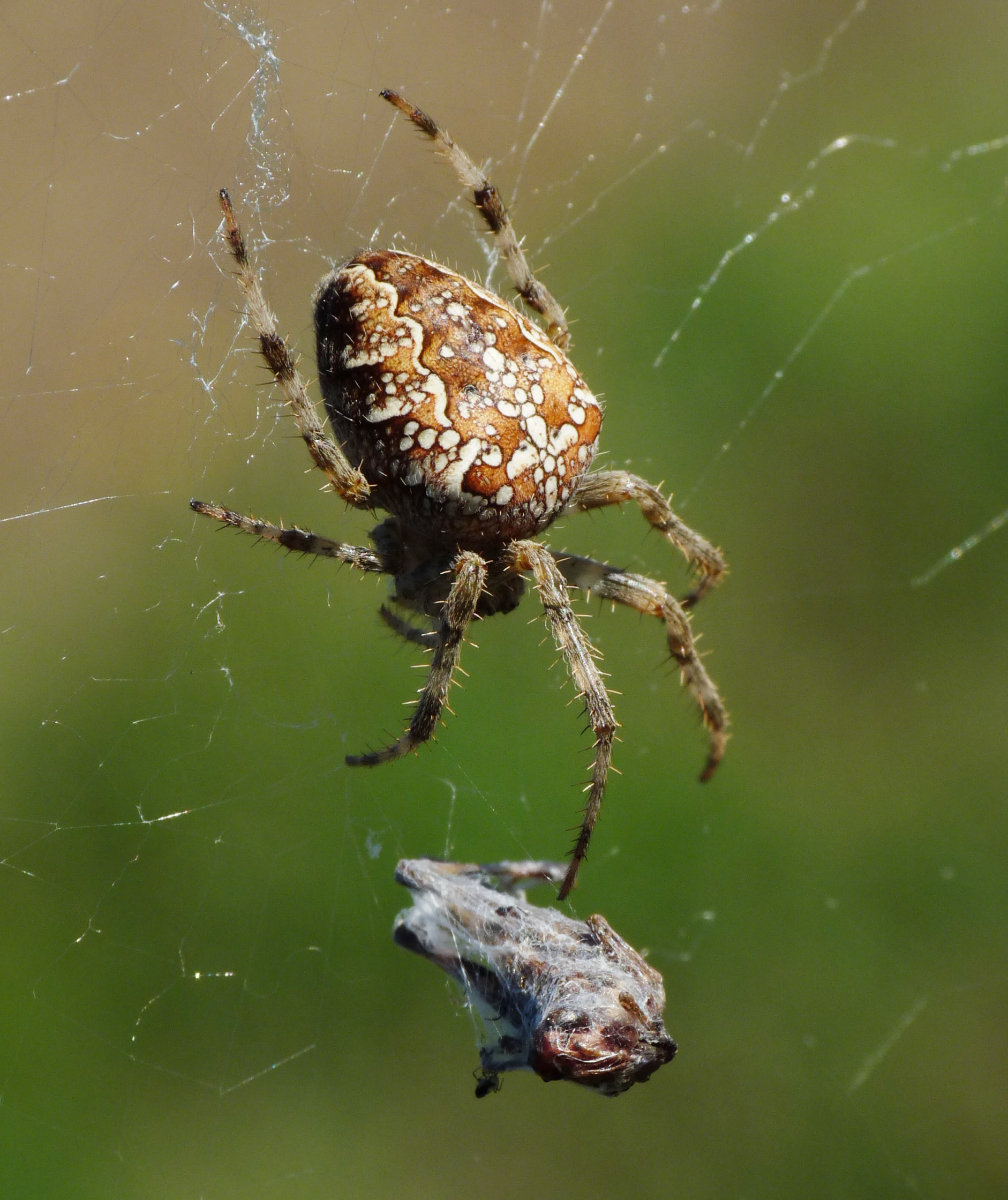 Araneus diadematus, near Livorno, Tuscany, Italy